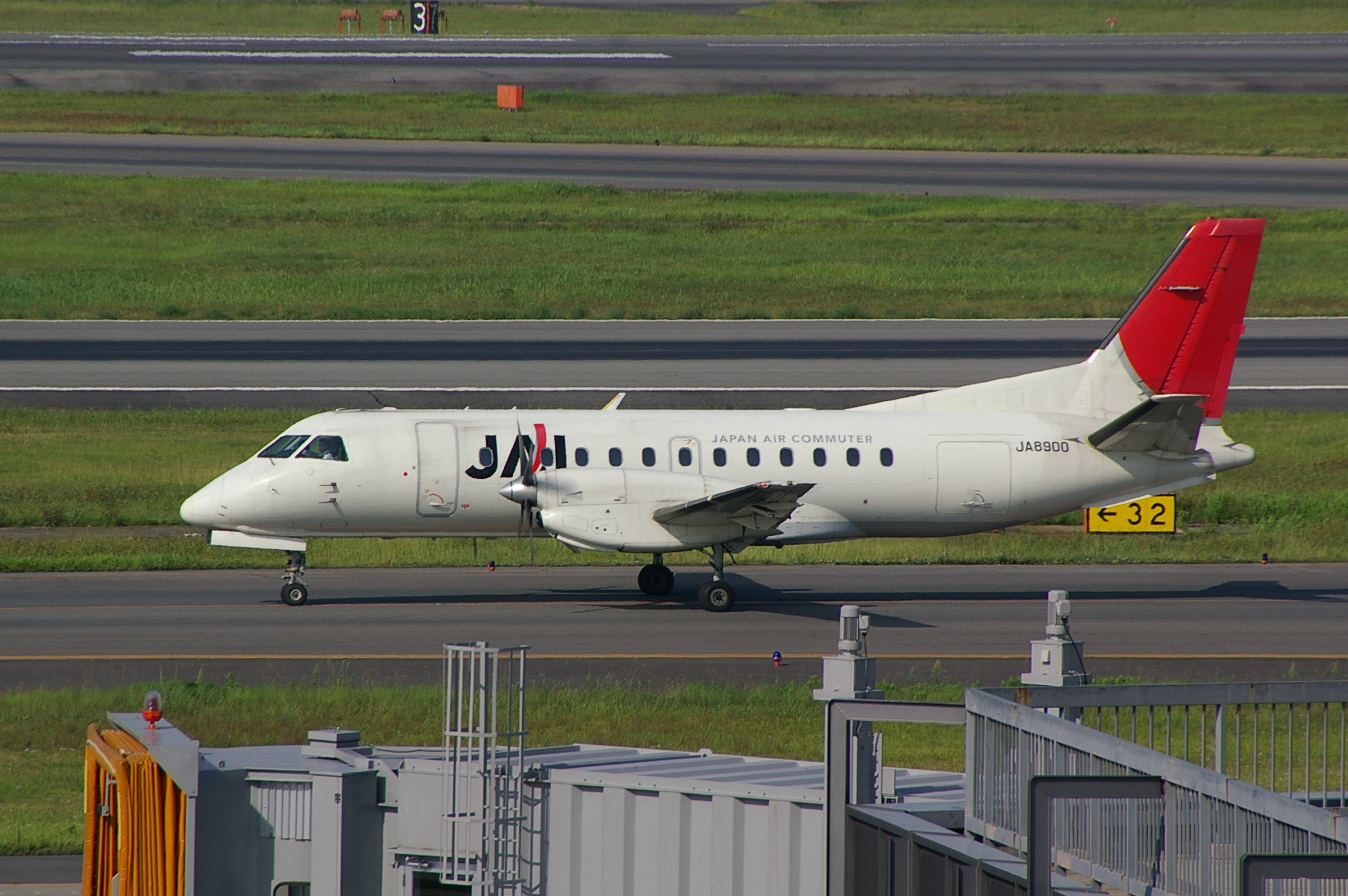 Photograph of Japan Air Commuter's Saab 340B+ (JA8900) taken from the observation deck of Osaka International Airport passenger terminal building in Toyonaka, Osaka Prefecture, Japan.